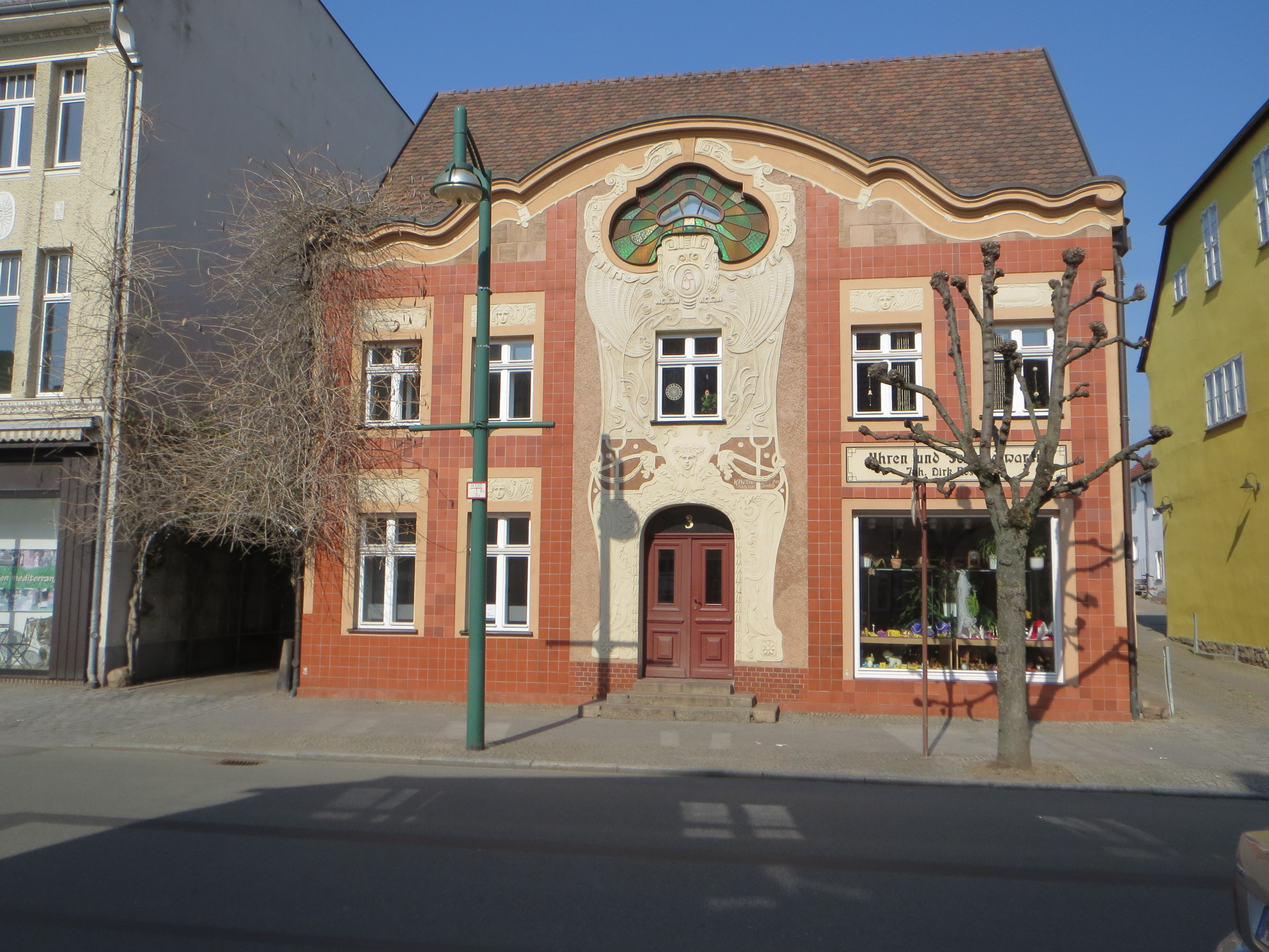 Glambecker Strasse 3, Neustrelitz